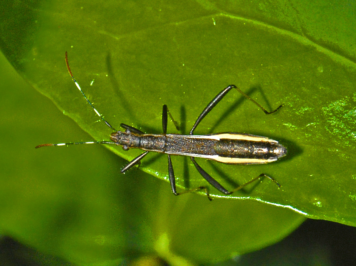 Micrelytra fossularum. Genova, Italy